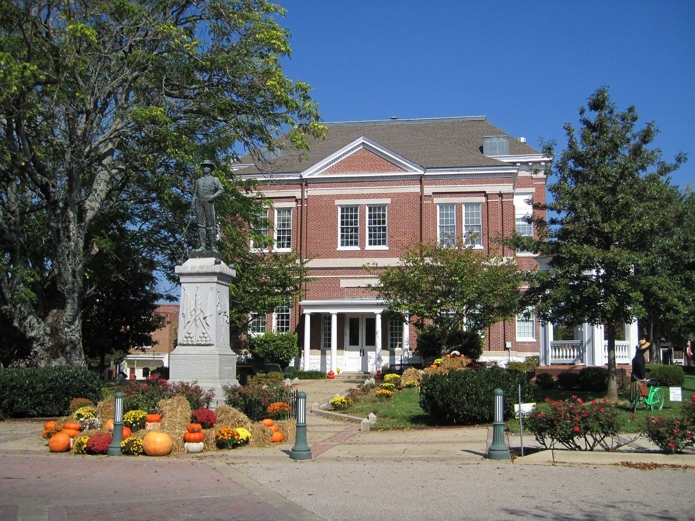 Tipton County court house, Covington, Tennessee